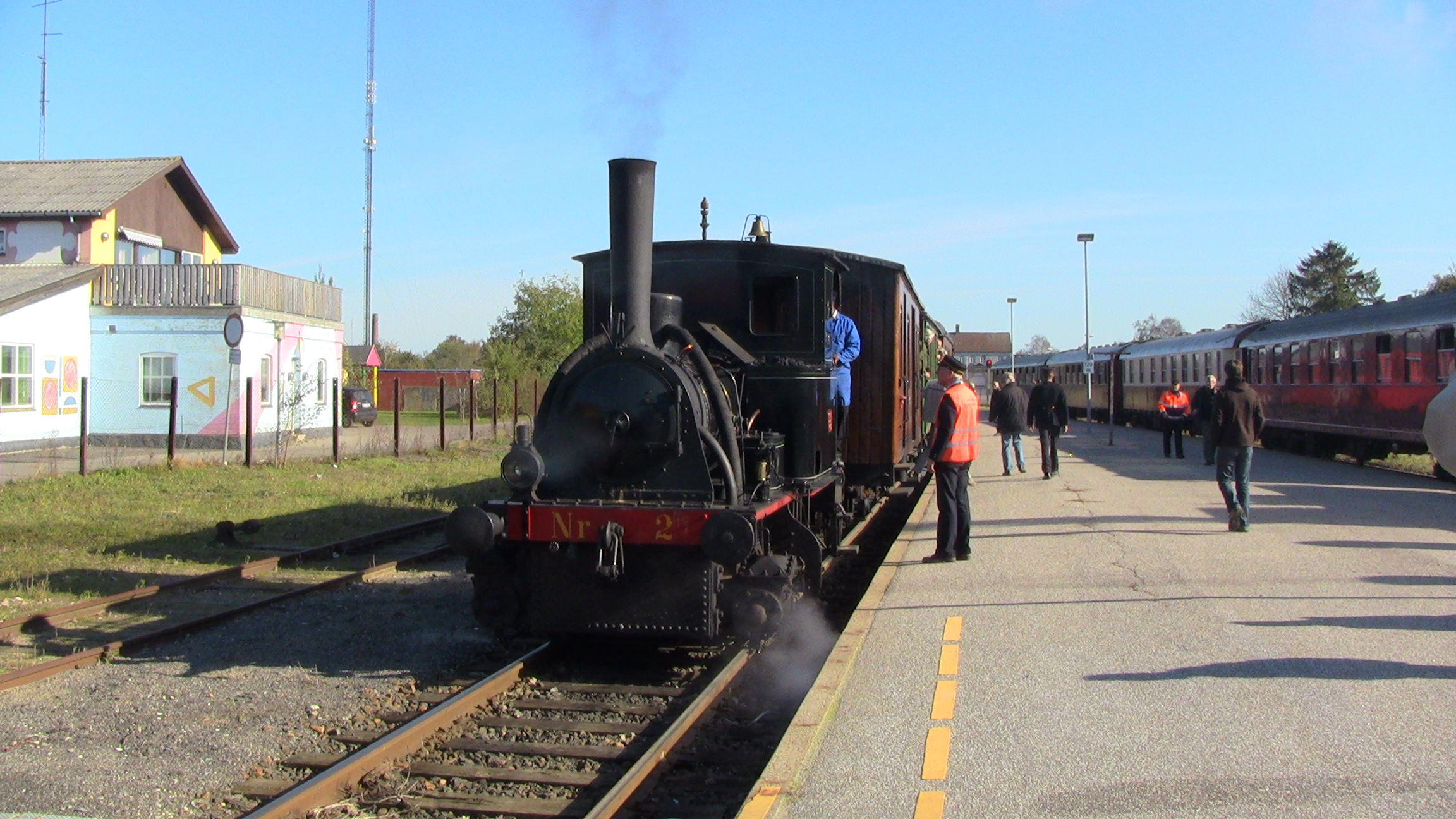 Steam locomotive ØSJS 2 with heritage train on Museumsbanen from Maribo to Bandholm. Ready to departure from Maribo.